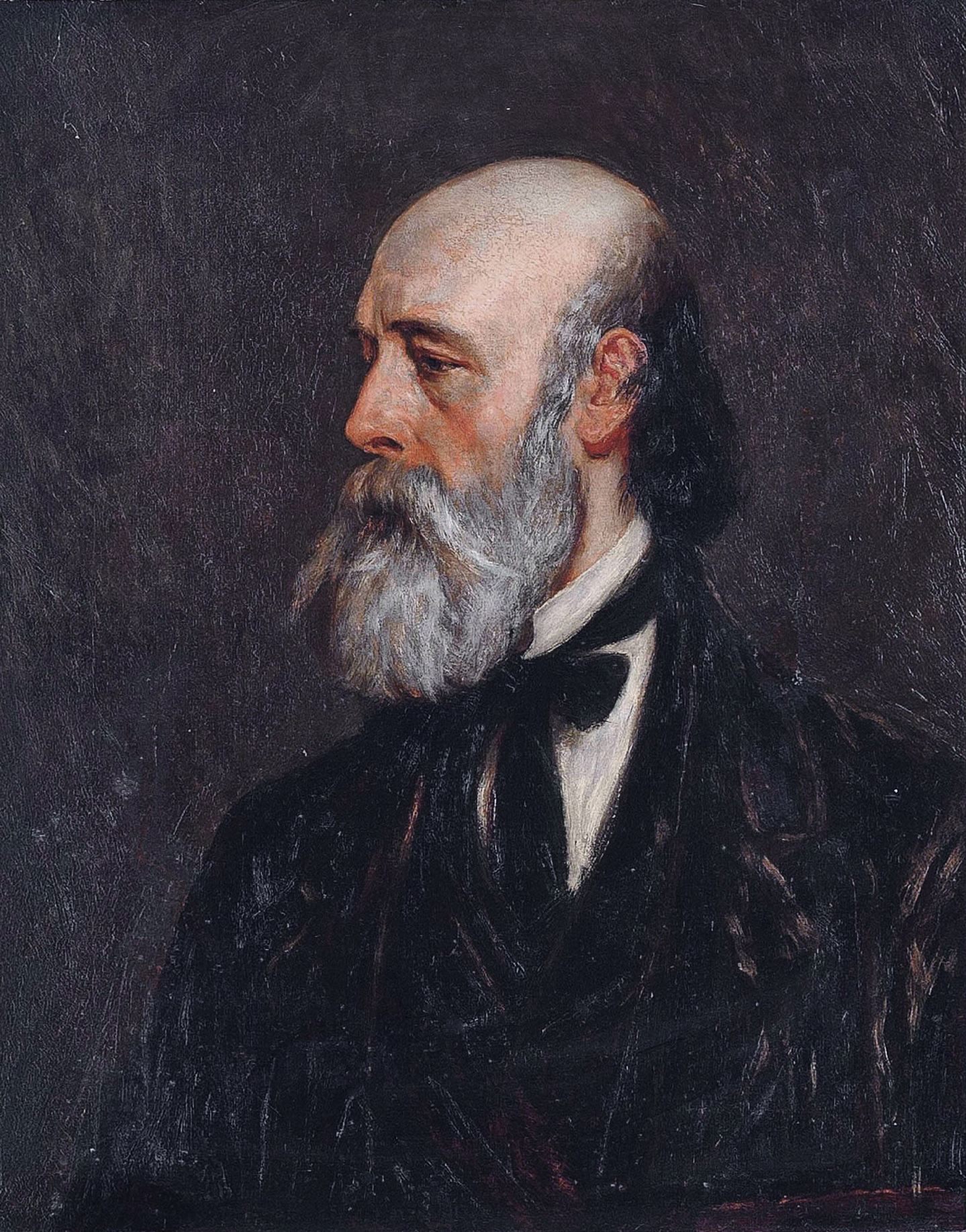 Paul Falconer Poole oil on canvas 66.7 x 53.3 cm 19th century